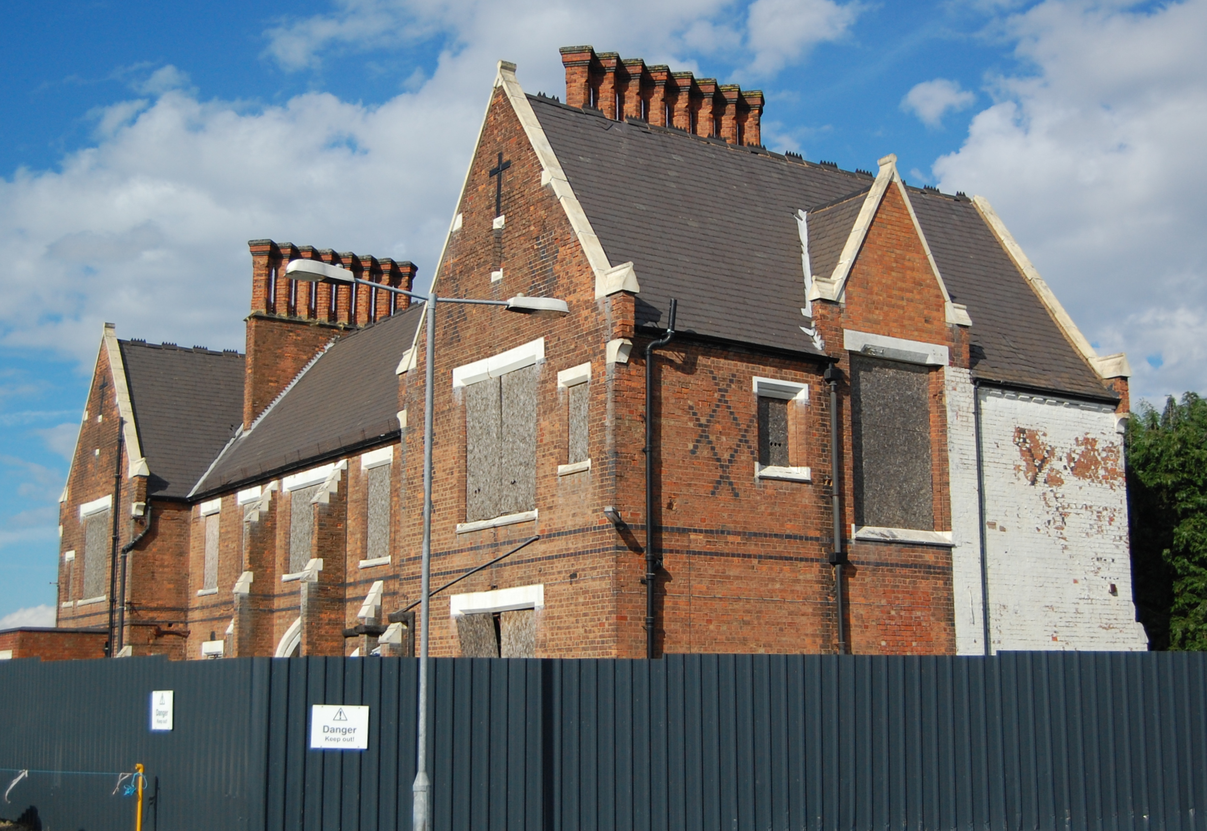 The former Birmingham Workhouse, now derelict, in the grounds of the later City Hospital.